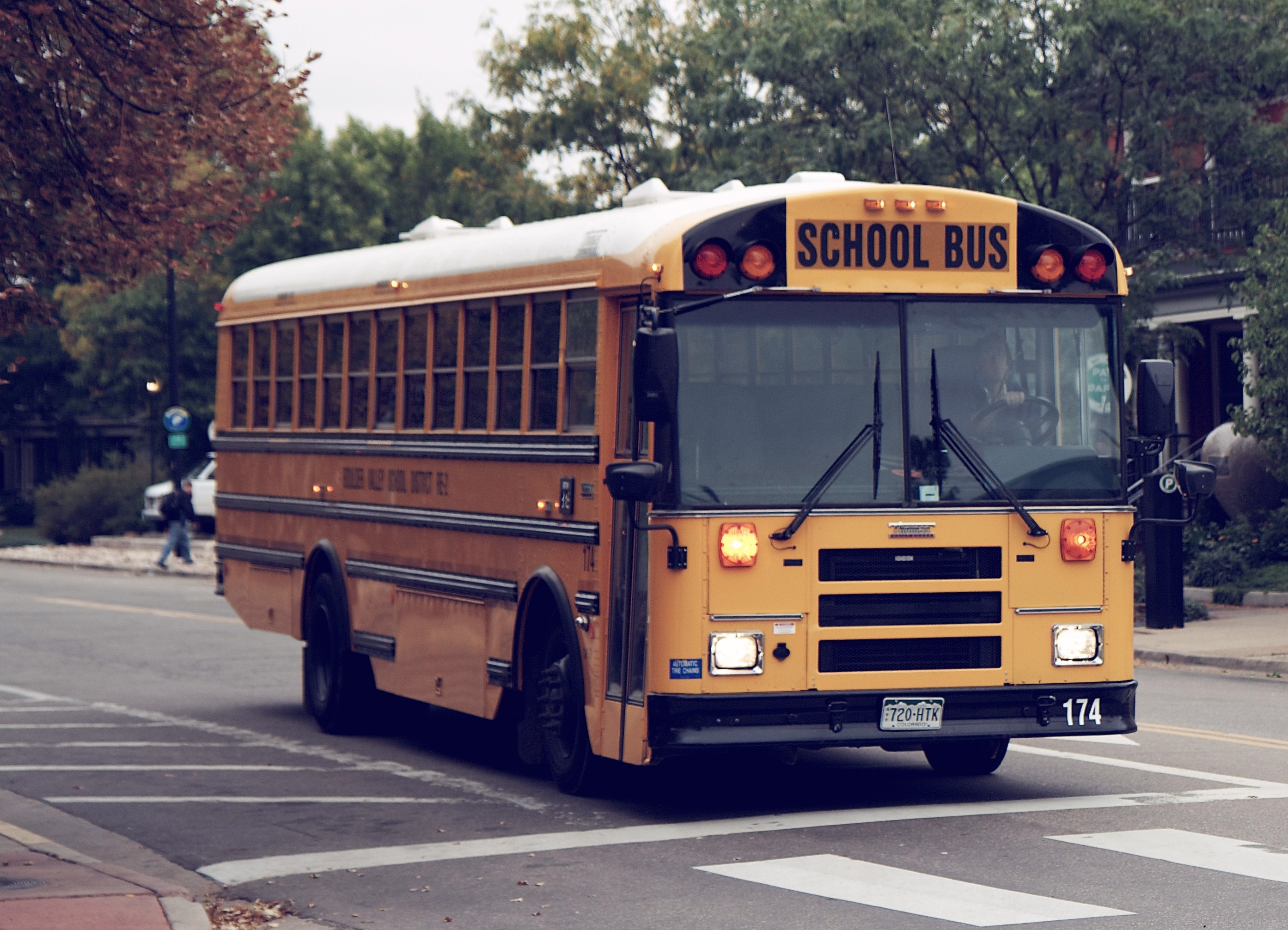 A school bus in Colorado. Bus is a 2008-present Thomas Built Buses Saf-T-Liner EF.